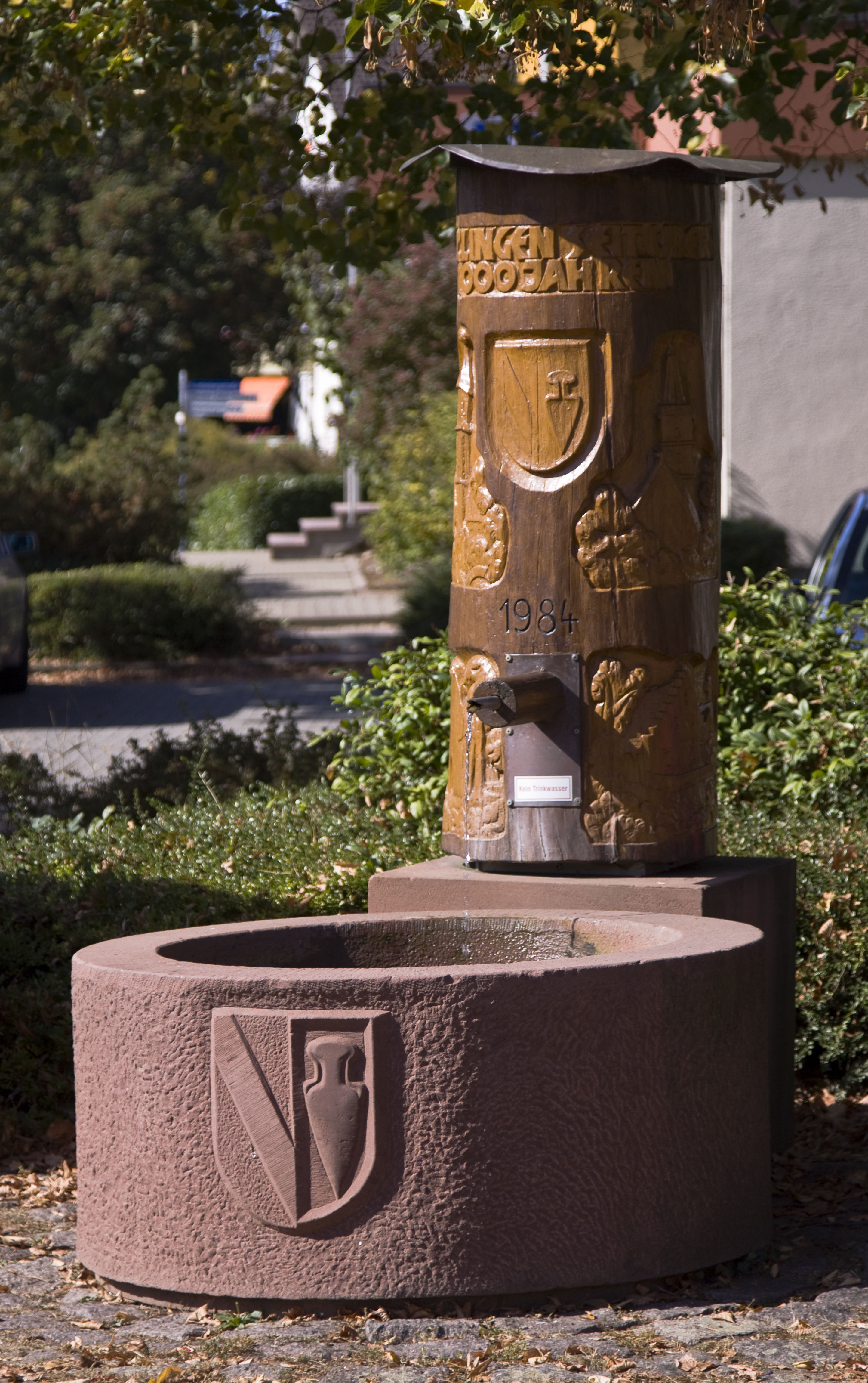 The "1000 Jahr Feier" Spring in Denzlingen. It was given to the public by the organisators of the "old village" at the 1000 year village fair in 1984.